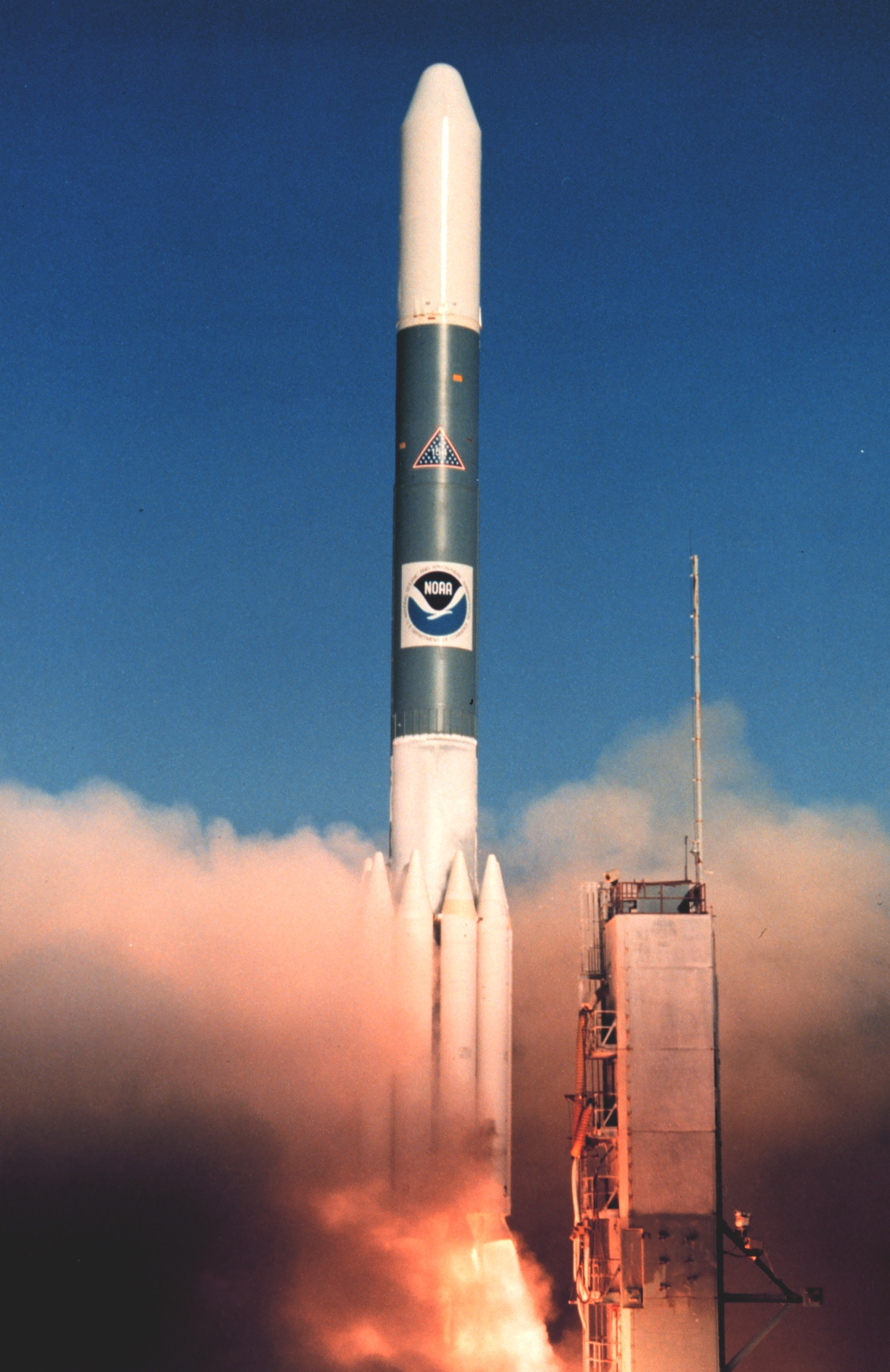 GOES-E lifting off.